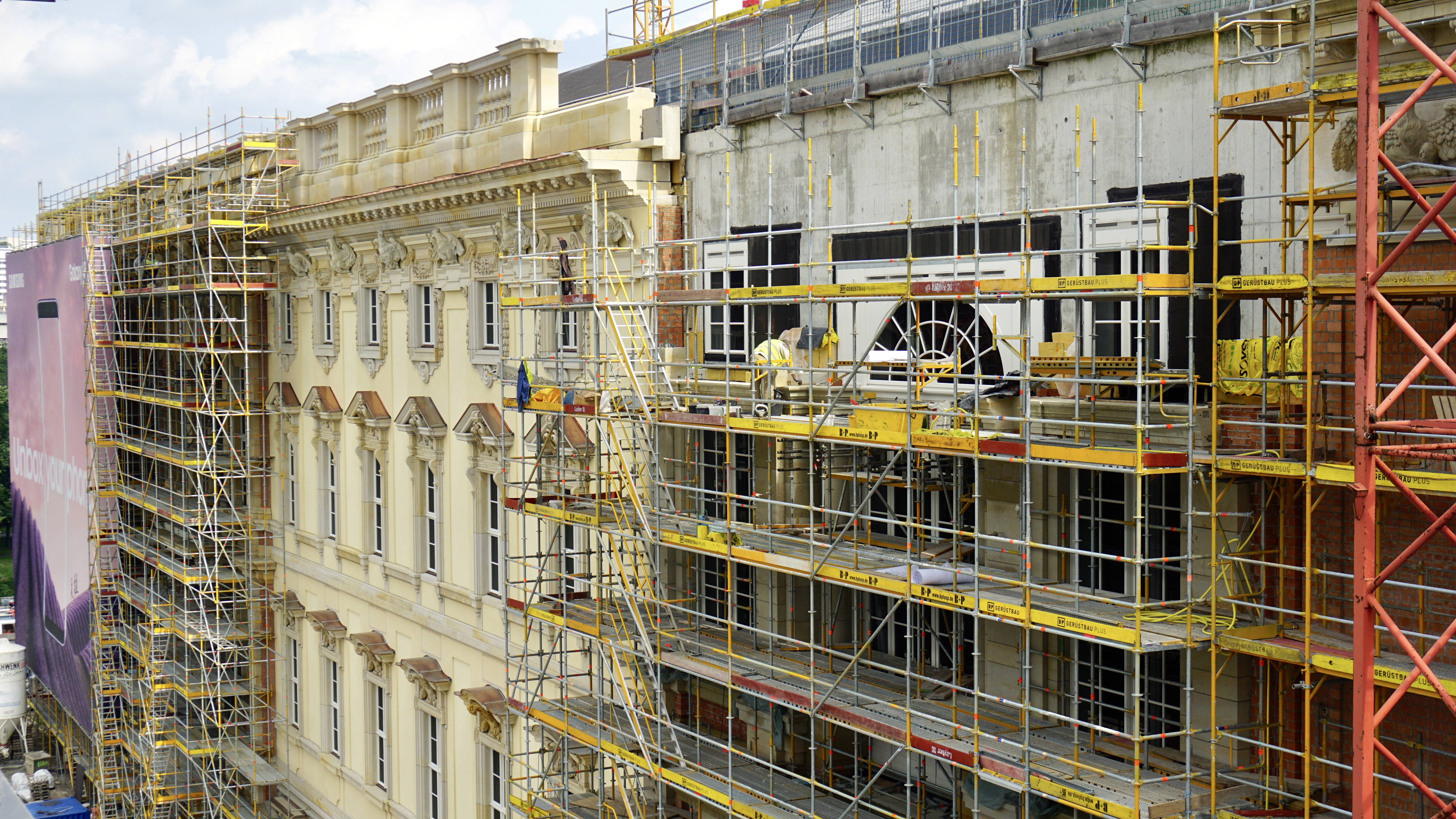 Humboldt Forum under construction. Berlin 2017-07-11